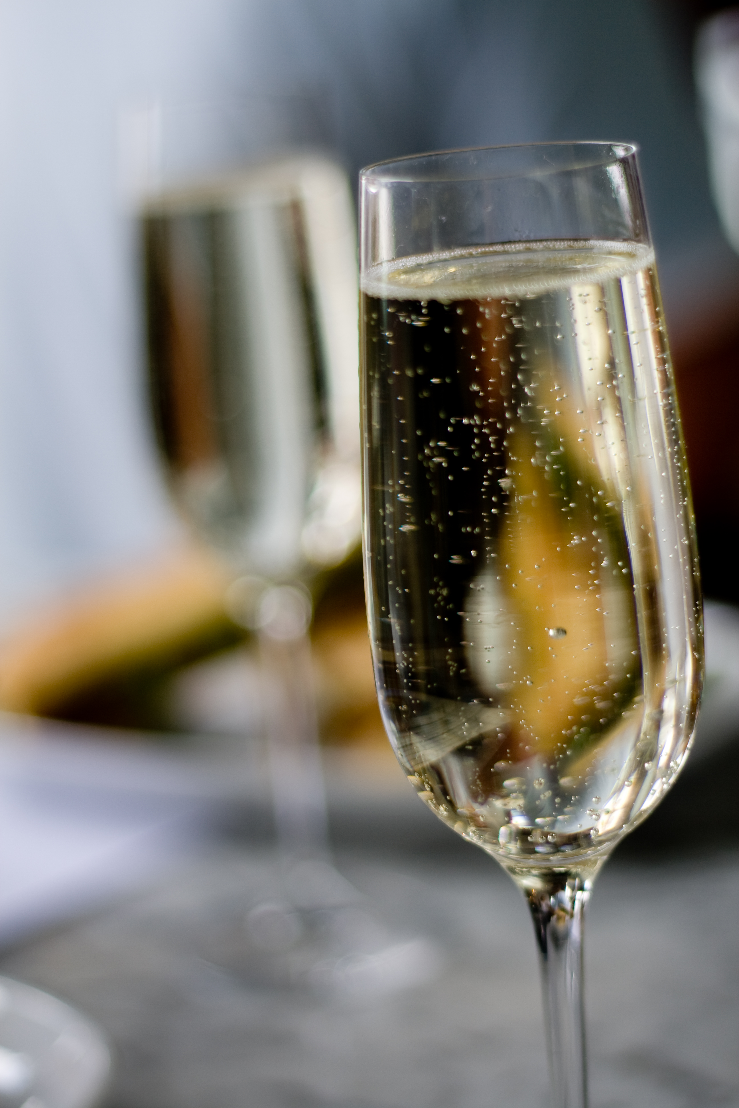 Sparkling wine being served in a standard champagne flute.